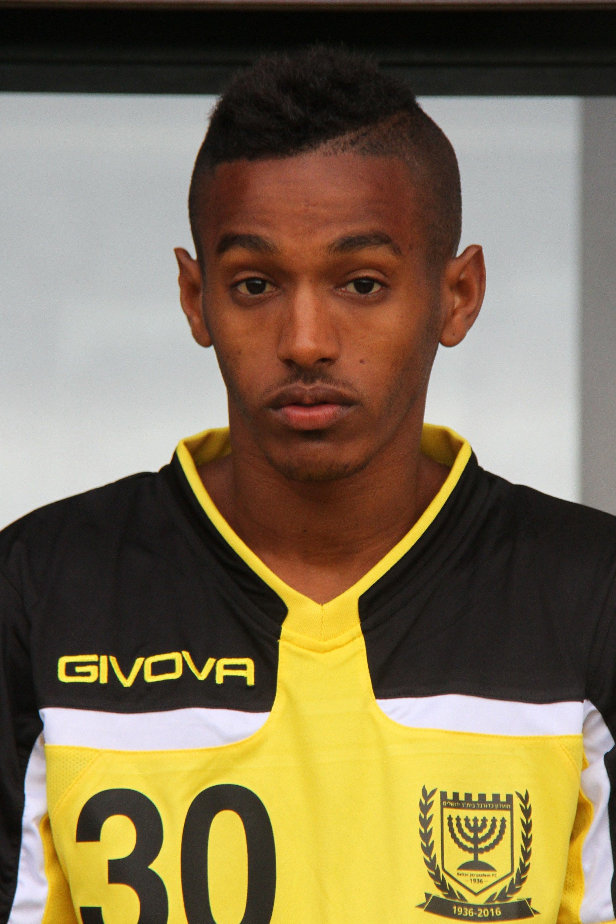 Friendly match between Beitar Jerusalem F.C. (yellow shirts) and MTK Budapest FC (blue shirts) at 2016-06-18 in Bad Erlach (Austria. – The photo shows Yaacov Brihon, Beitar Jerusalem F.C.